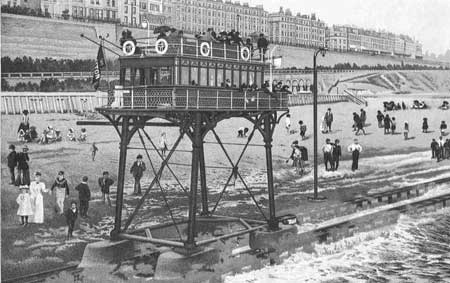 Photo of Daddy Long Legs, vehicle of unusual seagoing railway that existed in Brighton, UK, brtween 1896 and 1901